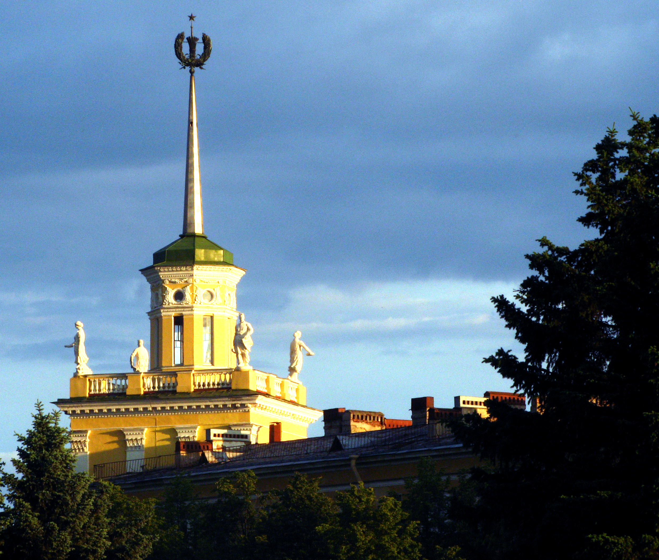 Spire (view from the train station, Privokzalnaya square, Kolpino).